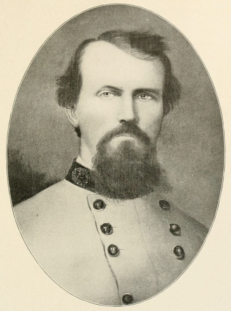 Confederate Major General Nathan Bedford Forrest